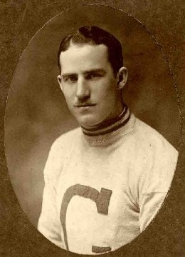 Harry Ellis Watson of the Toronto Granites hockey club in the 1921–1922 season.